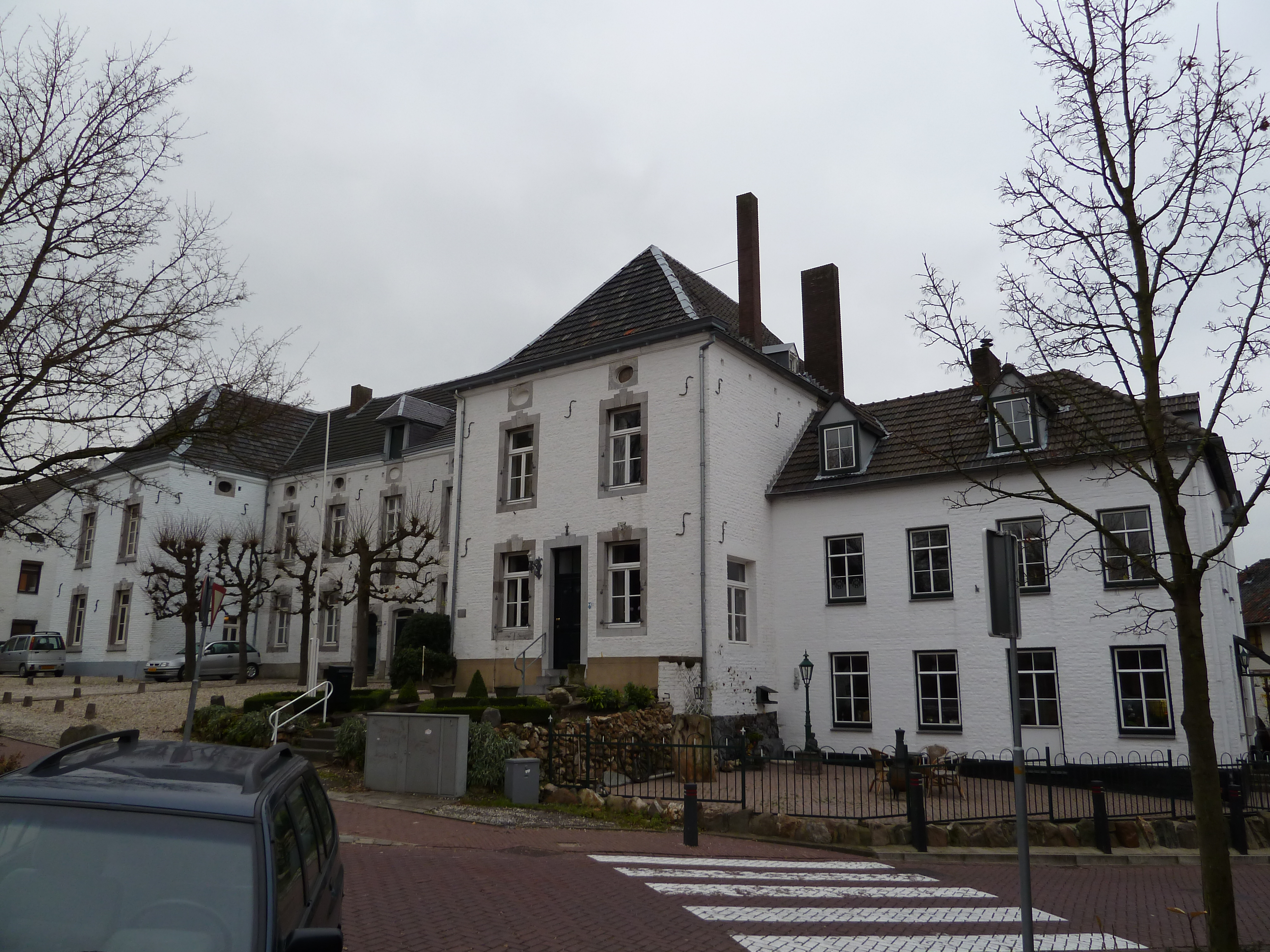 Hoofdstraat 9-11-13-15-17, Mechelen, Limburg, the Netherlands